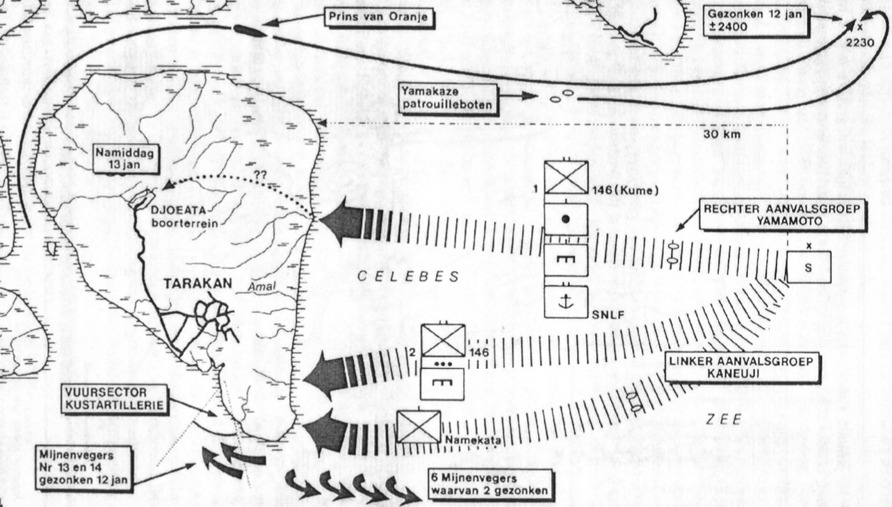 Map of Japanese attack on Tarakan and Sinking of Hr. Ms. Prins van Oranje